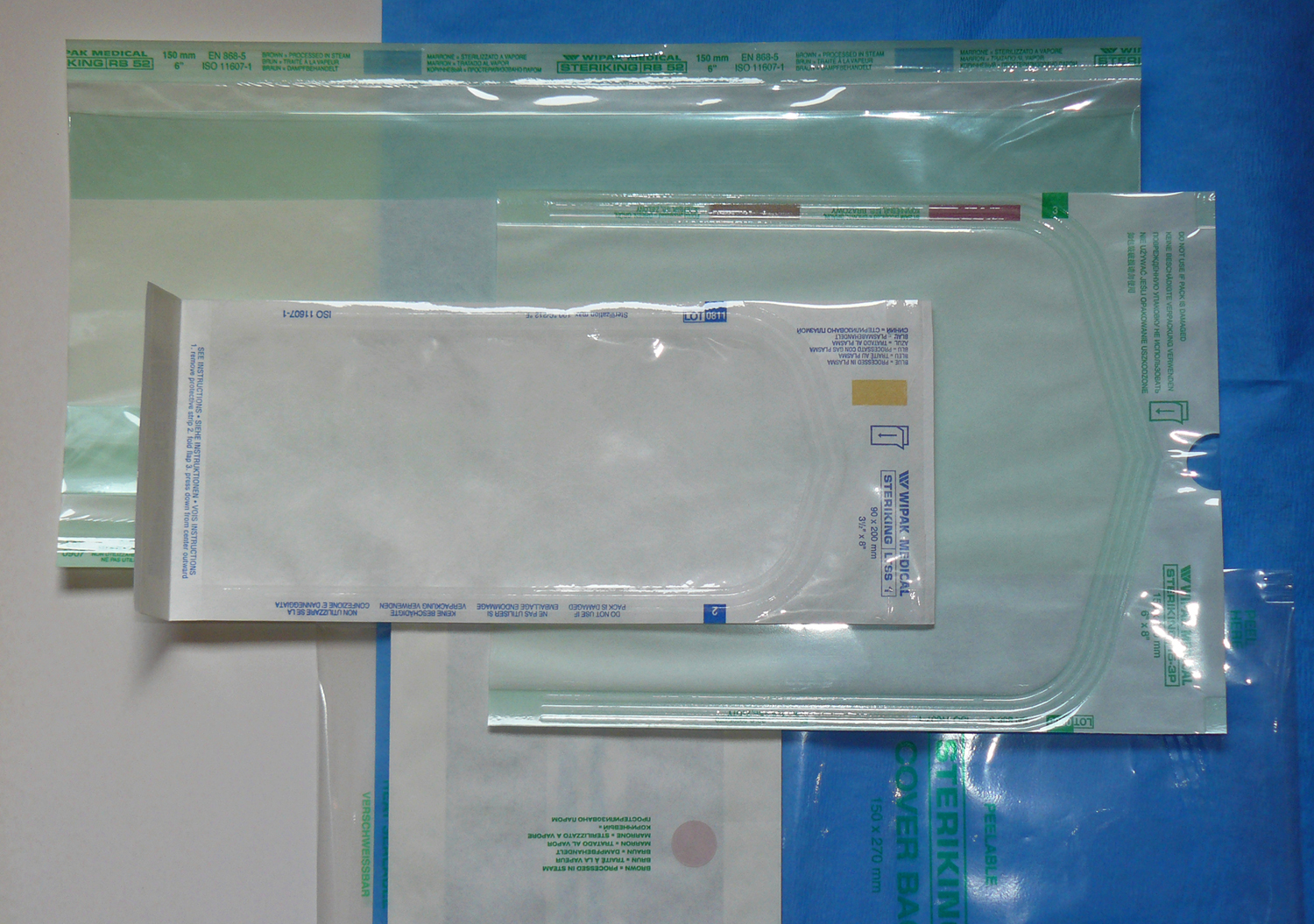 Reels, pouches for steam, gas and plasma sterilisation